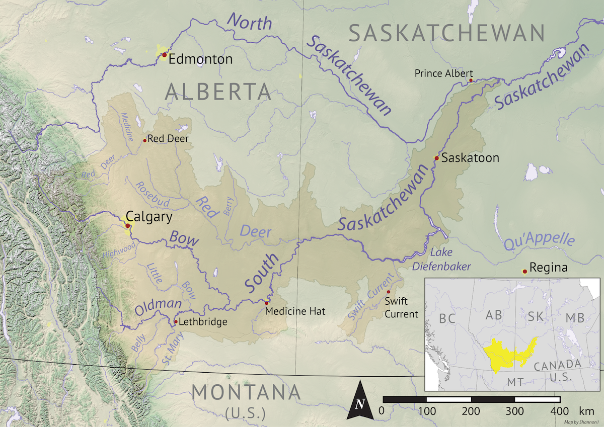 Map of the South Saskatchewan drainage basin in Alberta and Saskatchewan. Data derived from NASA SRTM, Natural Resources Canada, Statistics Canada, US Geological Survey, Natural Earth, all public domain.